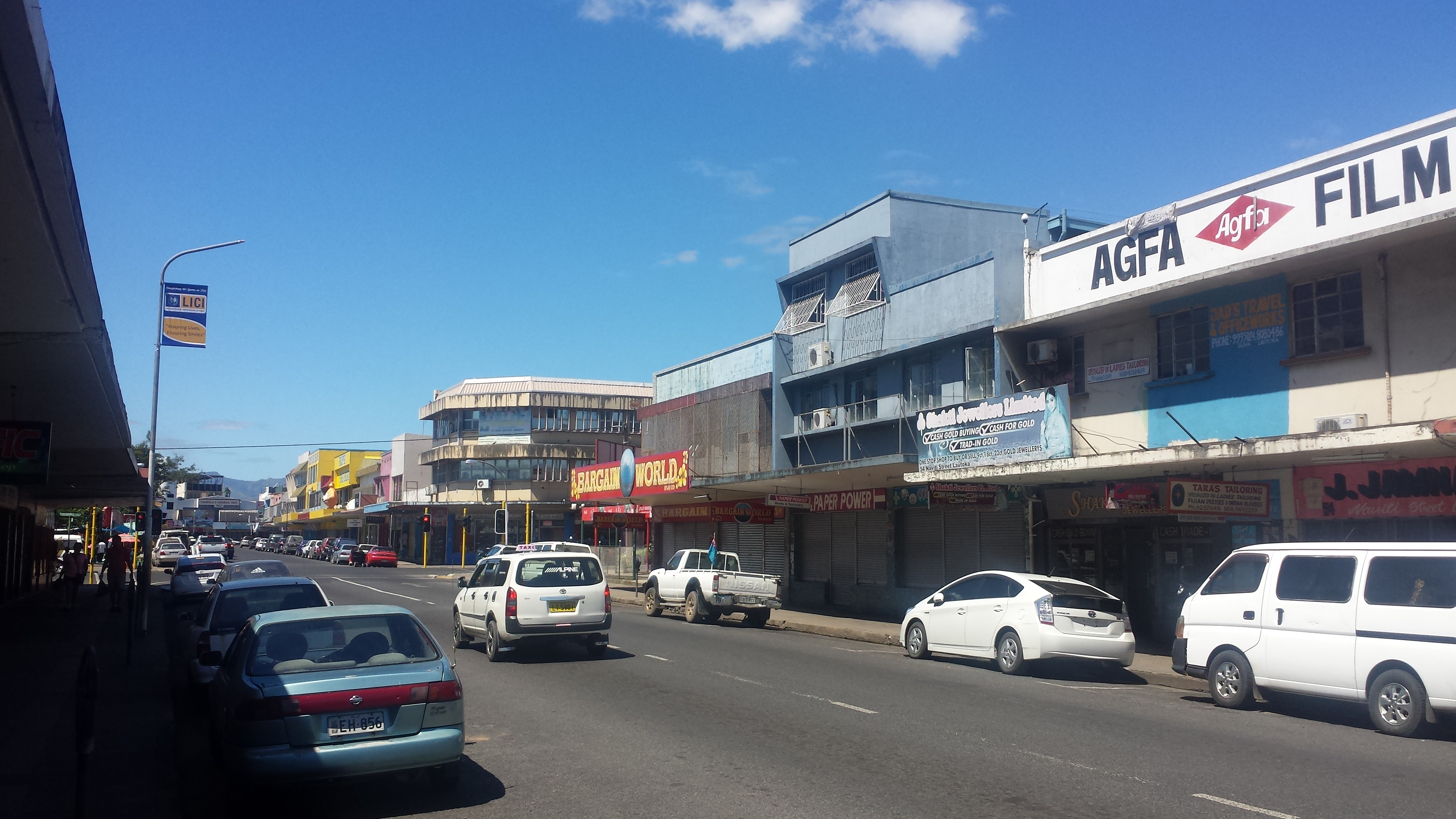 Street in Lautoka on the island of Viti Levu, Fiji. August 2016.